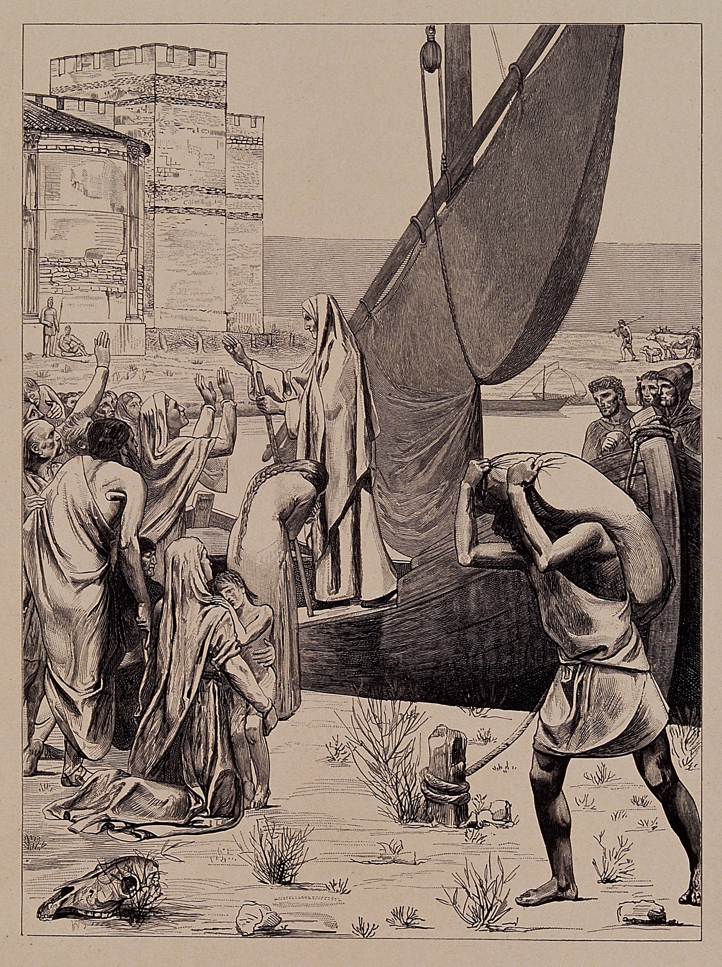 Saint Genevieve. Reproduction of engraving by Joubard after Puvis de Chavannes. Iconographic Collections Keywords: Joubard.; Henri Puvis de Chavannes